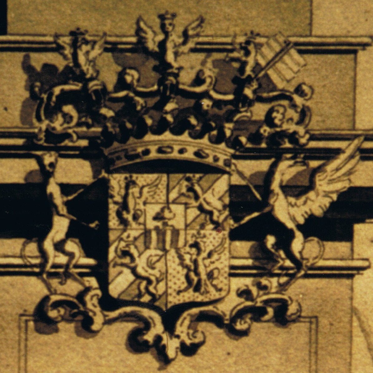 Full (Holy Roman Empire countly/S.R.I. comes) heraldic achievement of Peter De Salis, Esq., in stone as formerly attached to the statue put up in his honour in Chiavenna, late C18th. Rodolph (talk) 19:55, 24 November 2009 (UTC) Photo (R. de Salis, Oct. 2009) of a c.1880 photo of a drawing of the statue. (I think this drawing was the basis of the print). Rodolph (talk) 19:54, 24 November 2009 (UTC)